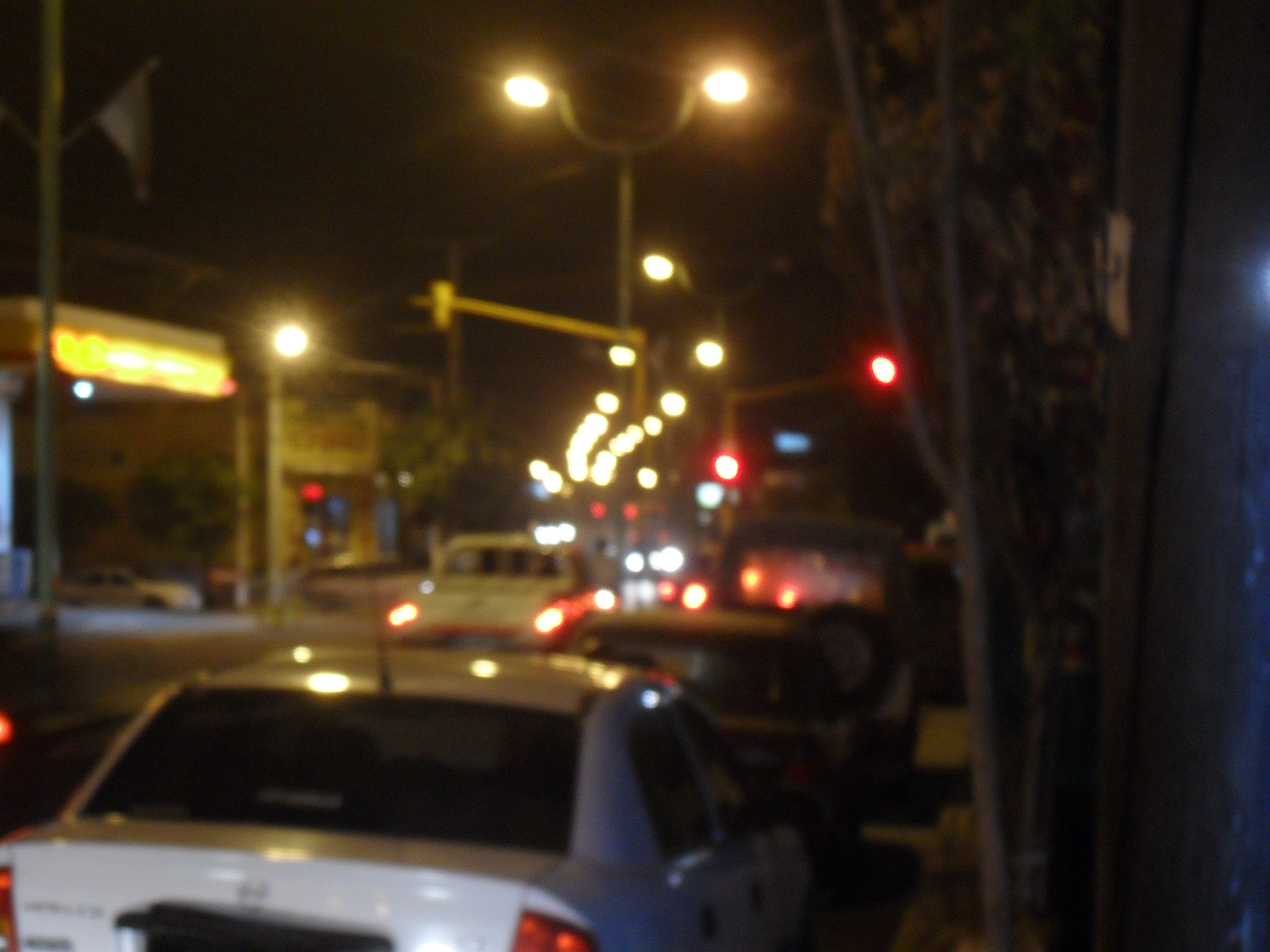 Night view of one of the main avenues of the city